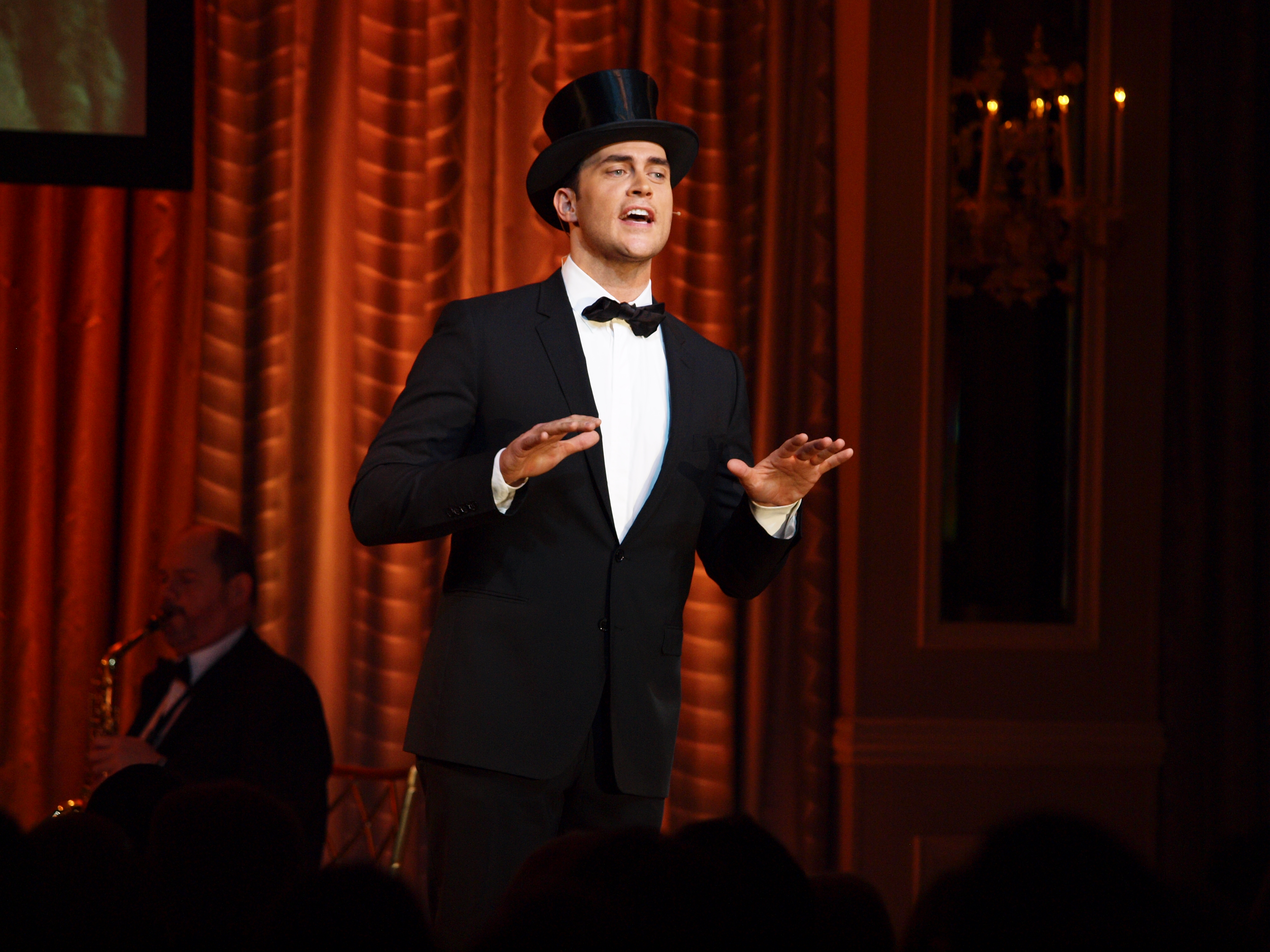 Cheyenne Jackson at the Drama League Benefit Gala Honoring Angela Lansbury, February 8, 2010. The Pierre, New York City, photo by Rob Rich